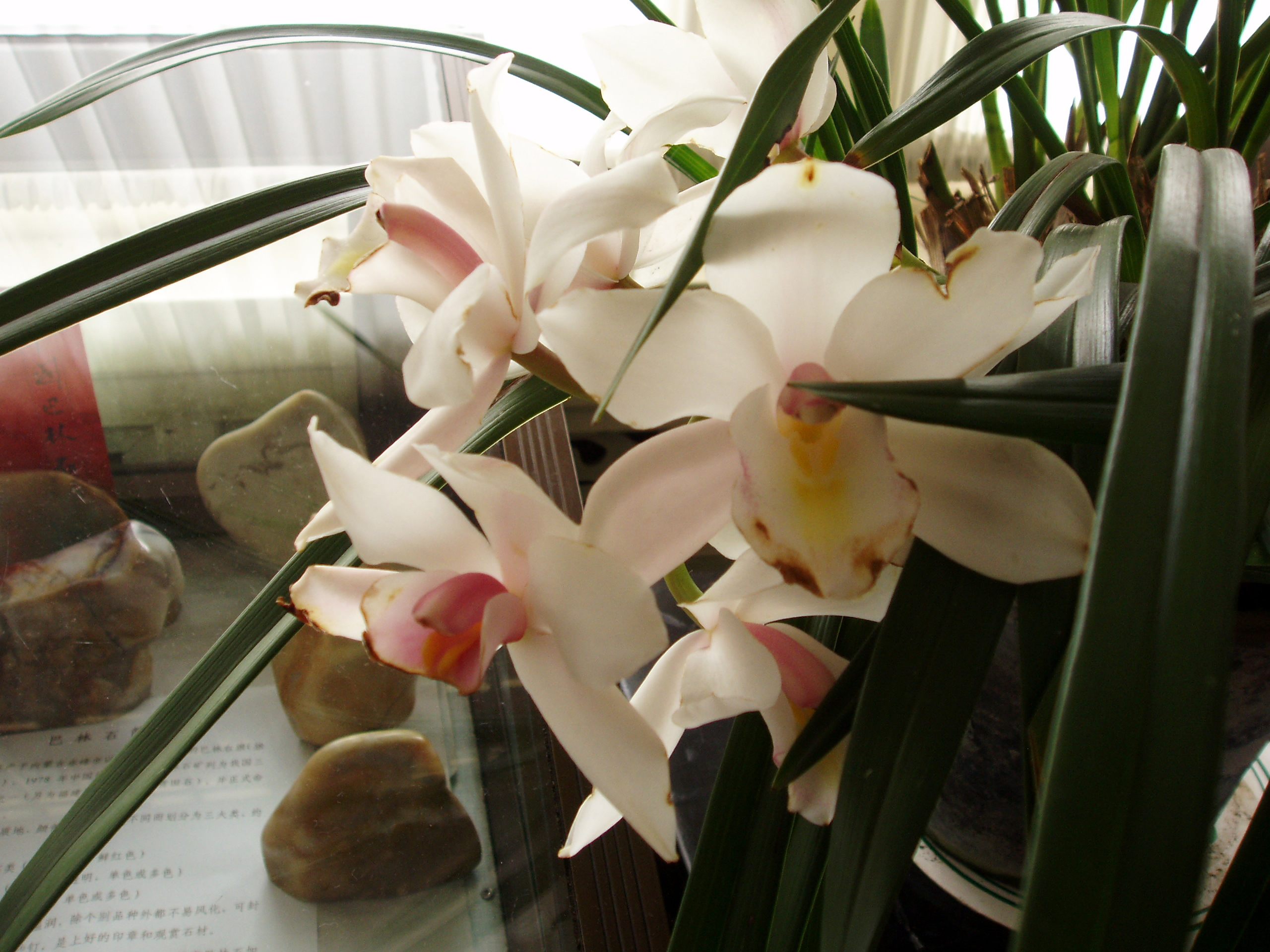 Four season orchid